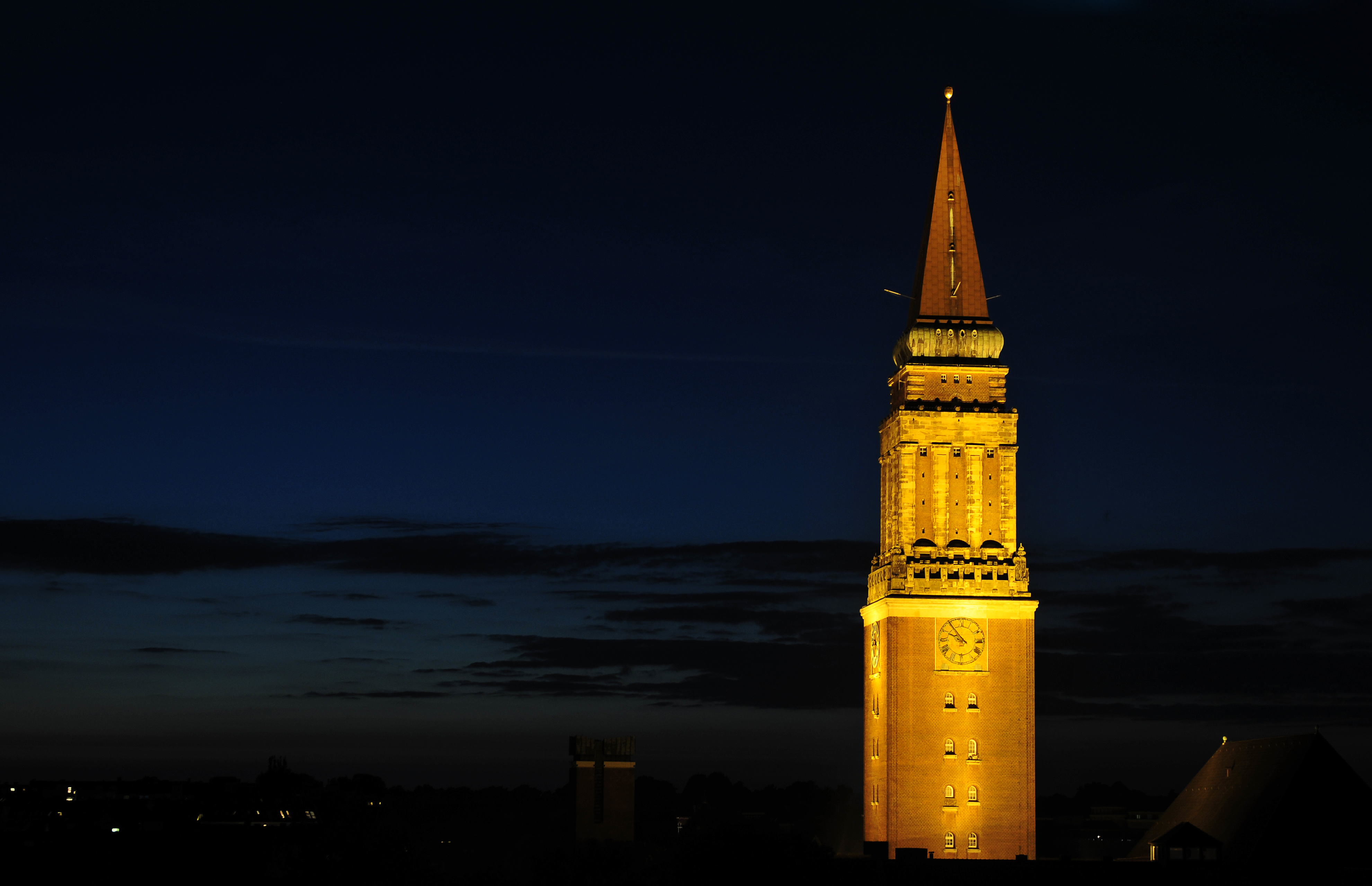 Tower of the Town Hall Kiel at night